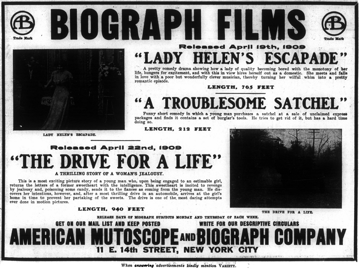 Biograph Advertisement in Variety for "Lady Helen's Escapade," "A Troublesome Satchel," and "The Drive for a Life."